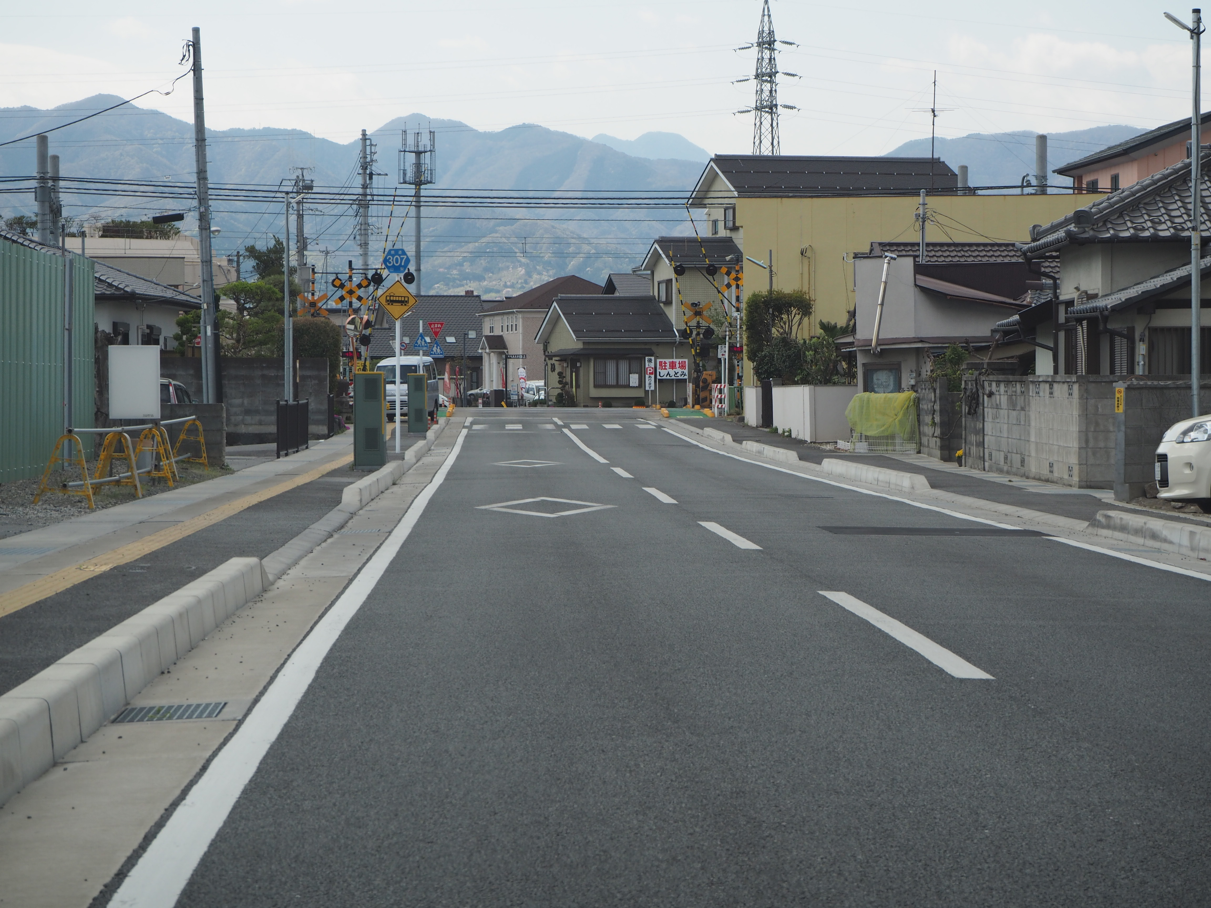 Yamanashi prefectural road 307